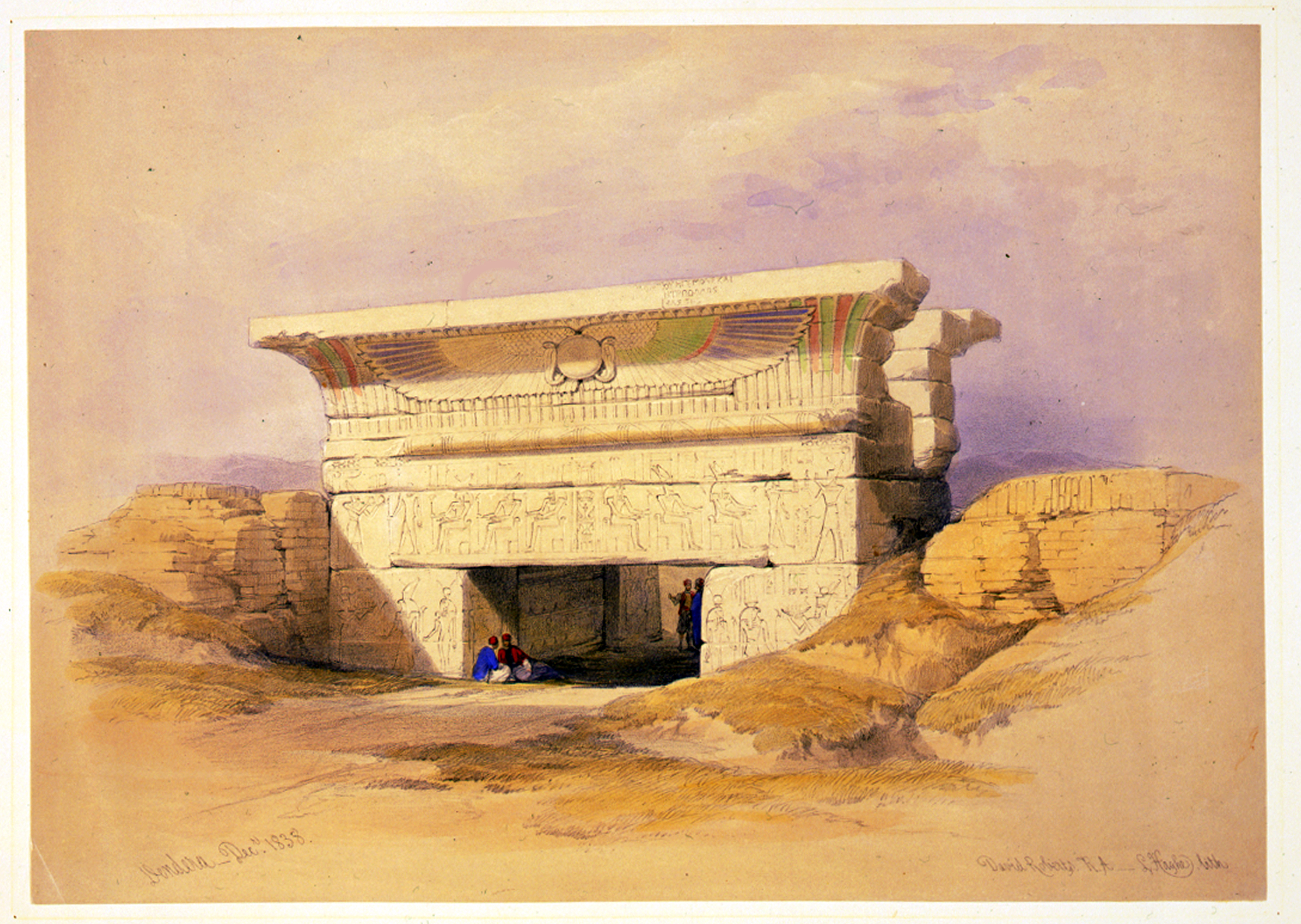 Picture of a print from David Roberts' Egypt & Nubia, issued between 1845 and 1849.